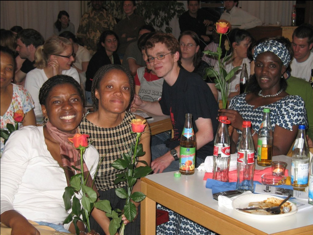 International students